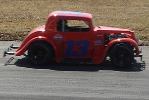 This is a Picture of Brian Ouimette at the Waterford Speedbowl during practice taken by father Daniel Ouimette